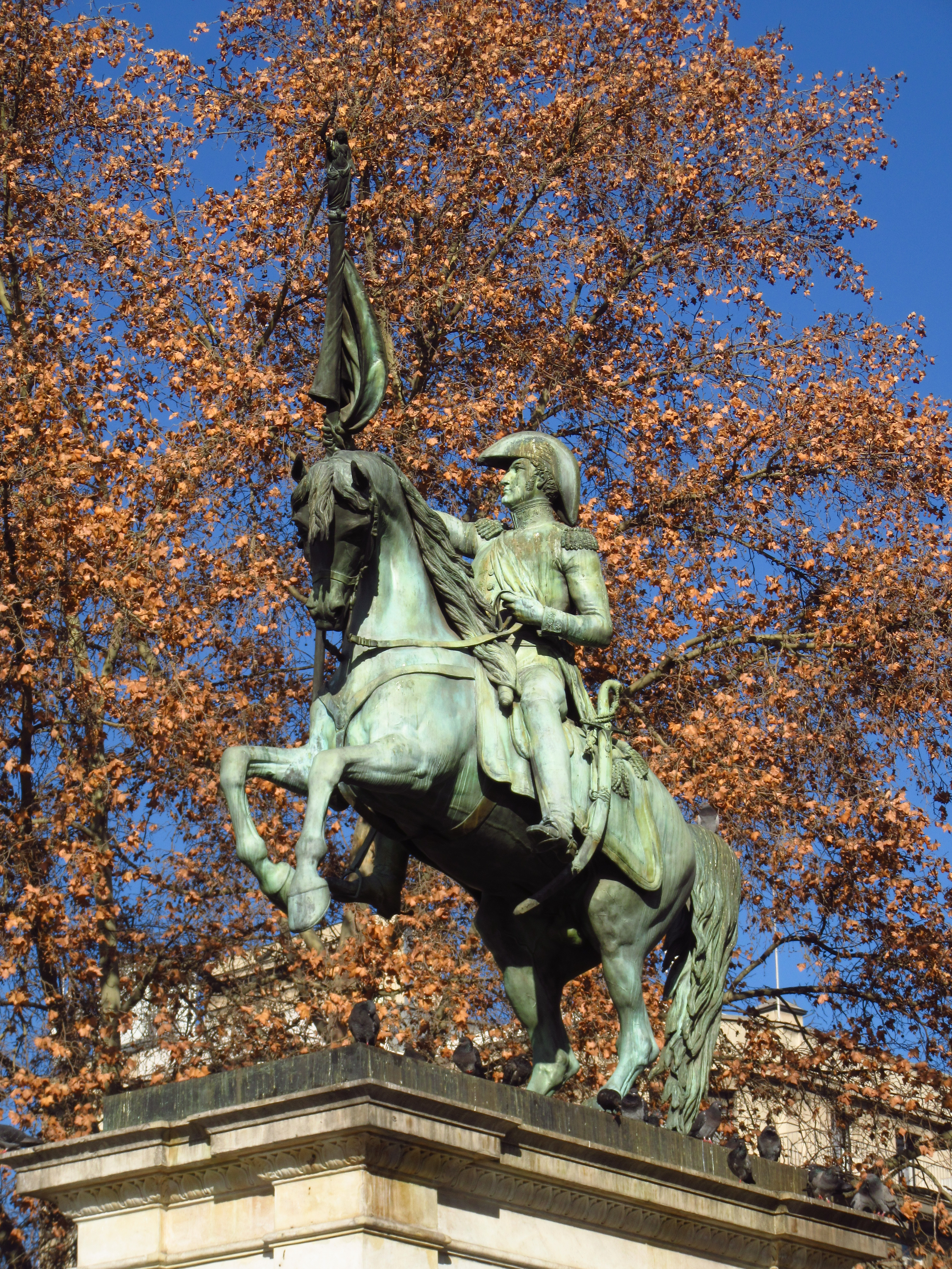 2017 in Santiago de Chile